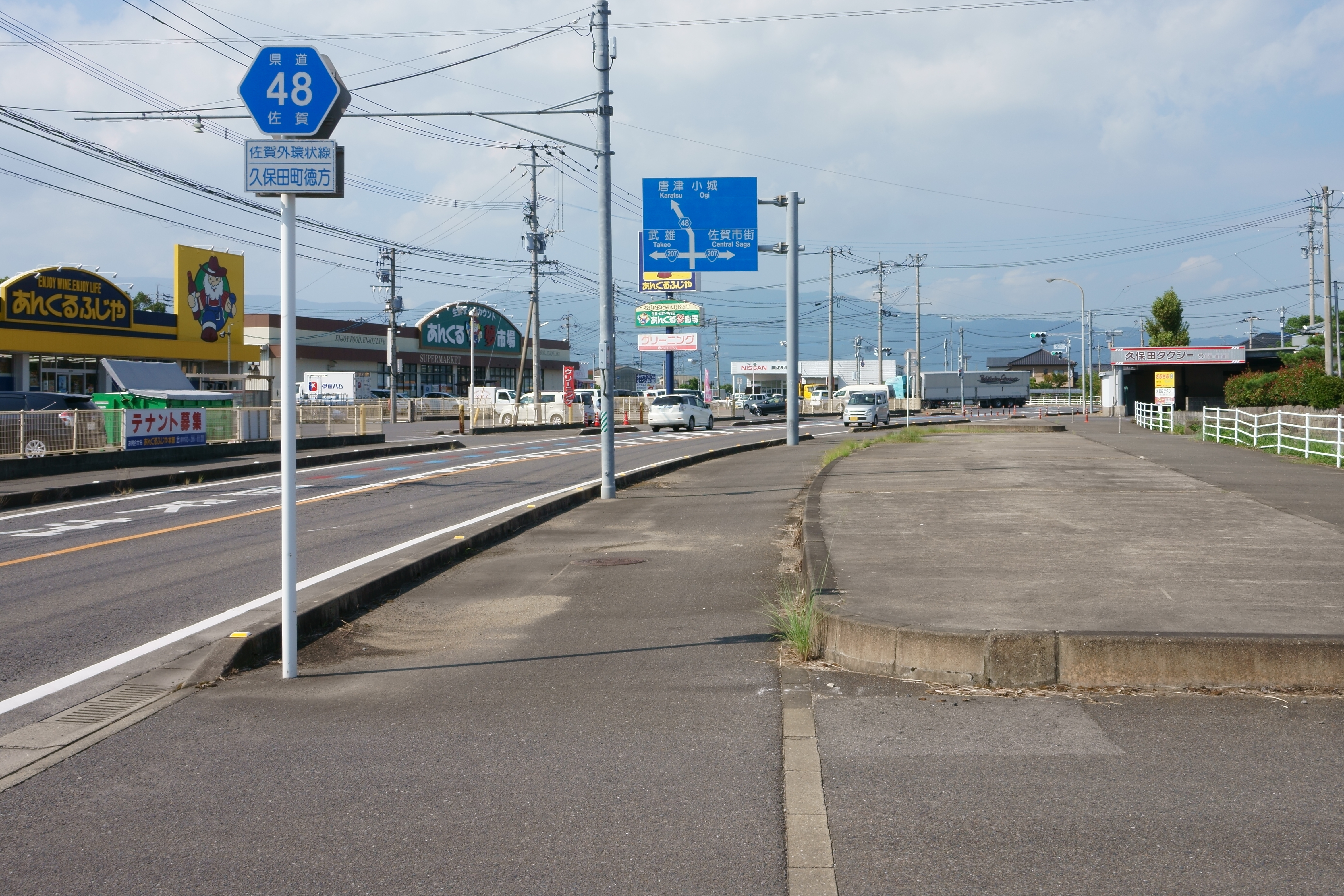 Saga Prefectural Road 48 in Kubota-cho Tokuman, Saga city.